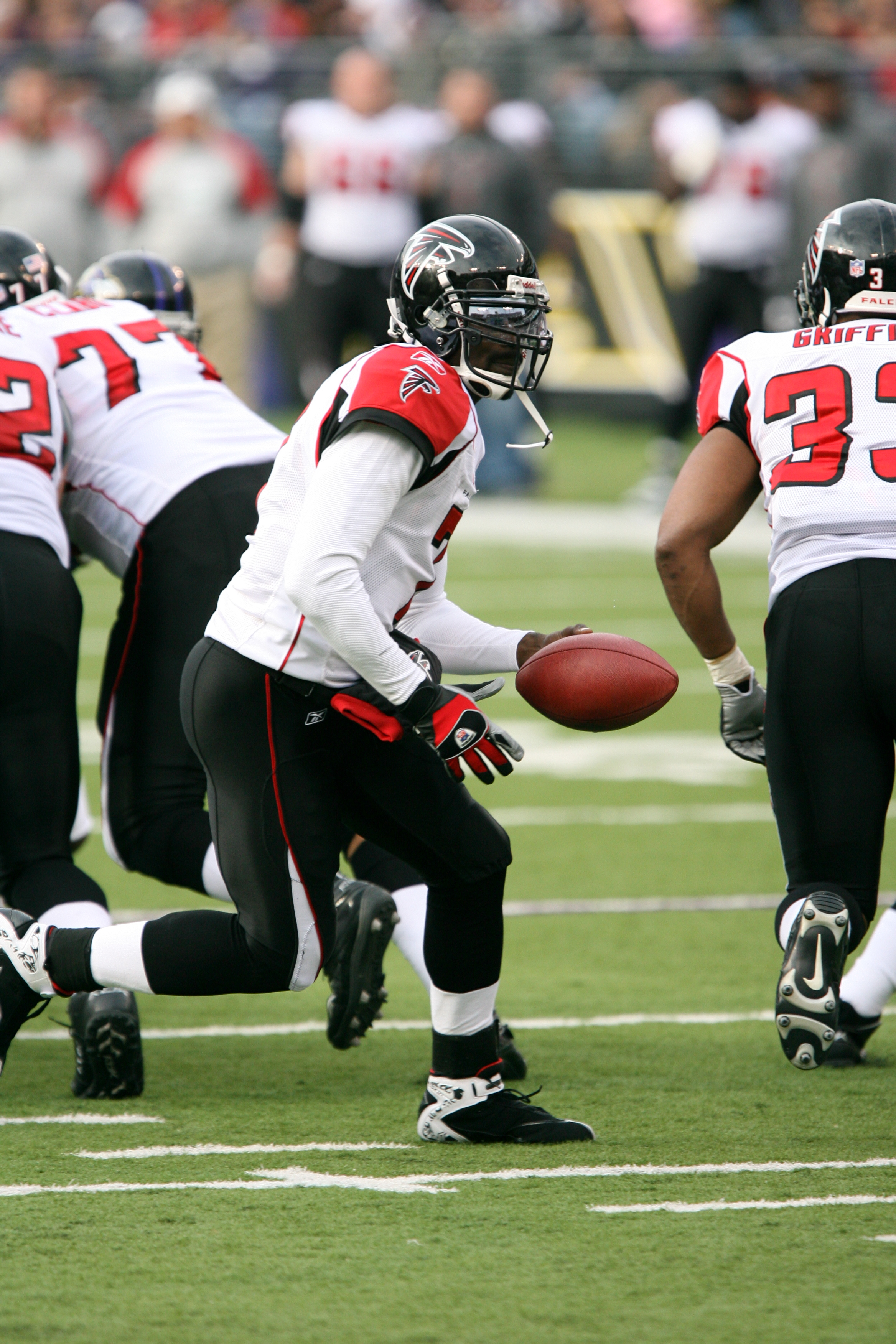 Michael Vick about to hand the ball off during a game against the Baltimore Ravens, November 19, 2006.